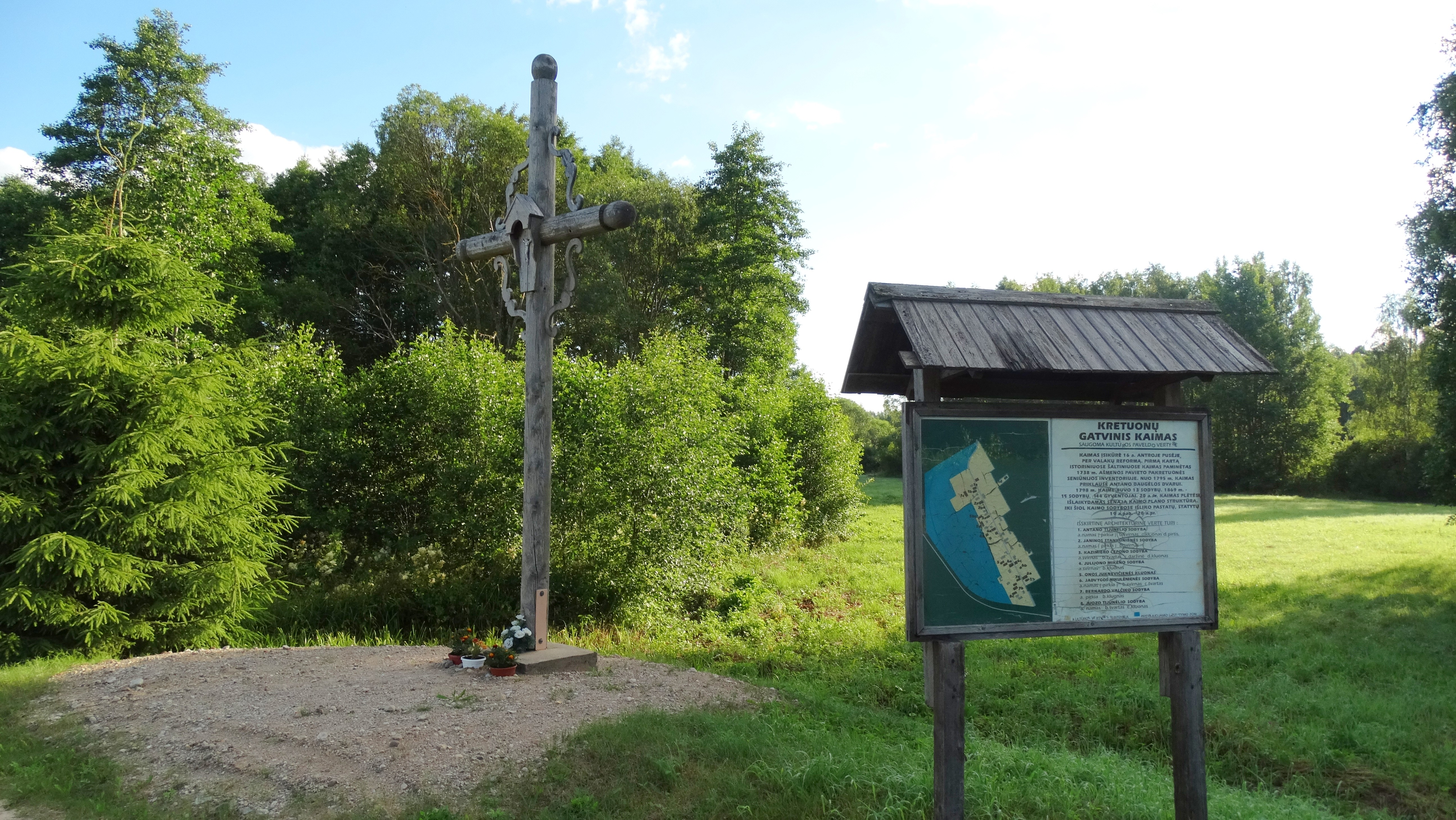 Kretuonys, Švenčionys District, Lithuania